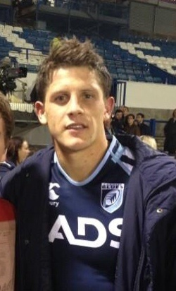 Lloyd Williams at The Arms Park